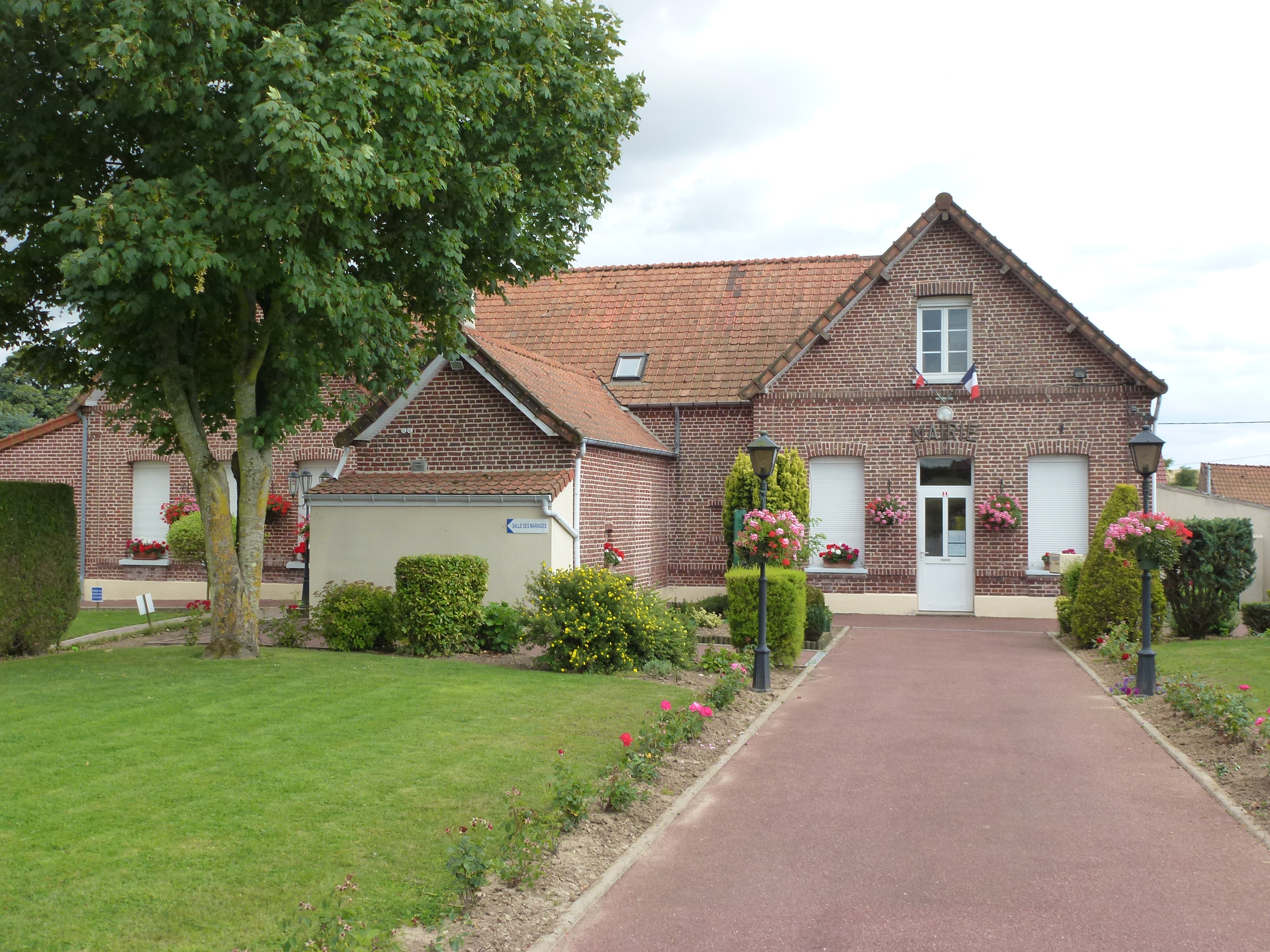 Pihem (Pas-de-Calais, Fr) mairie